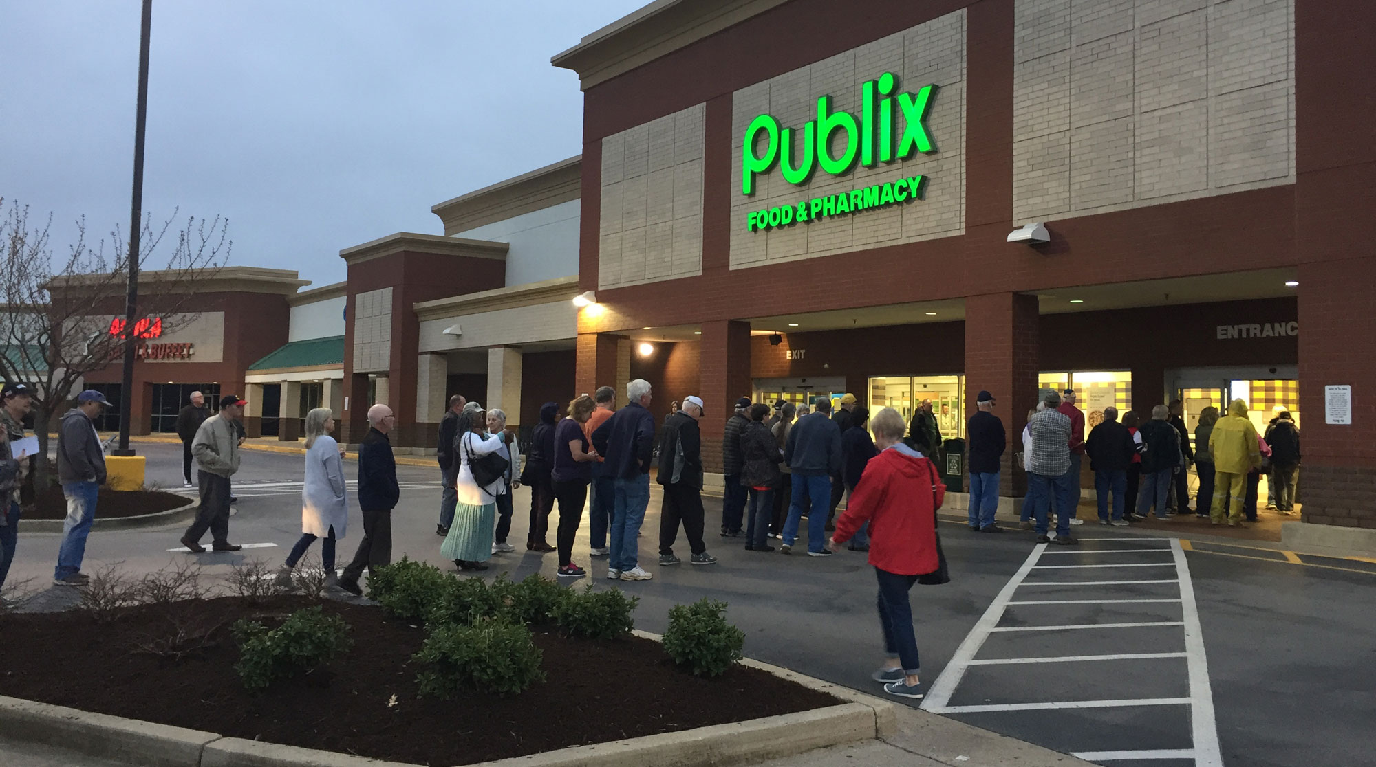 A long line formed at Publix in Smyrna, Tennessee at 7AM on March 24, 2020 during the store's seniors-only hours.